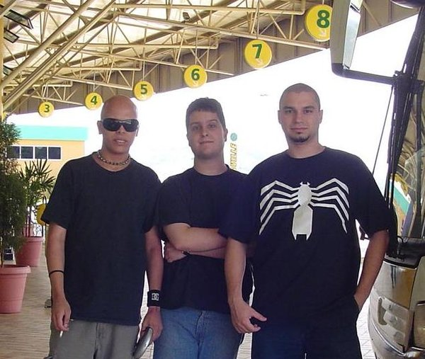 RPG authors JM Trevisan, Leonel Caldela and Marcelo Del Debbio